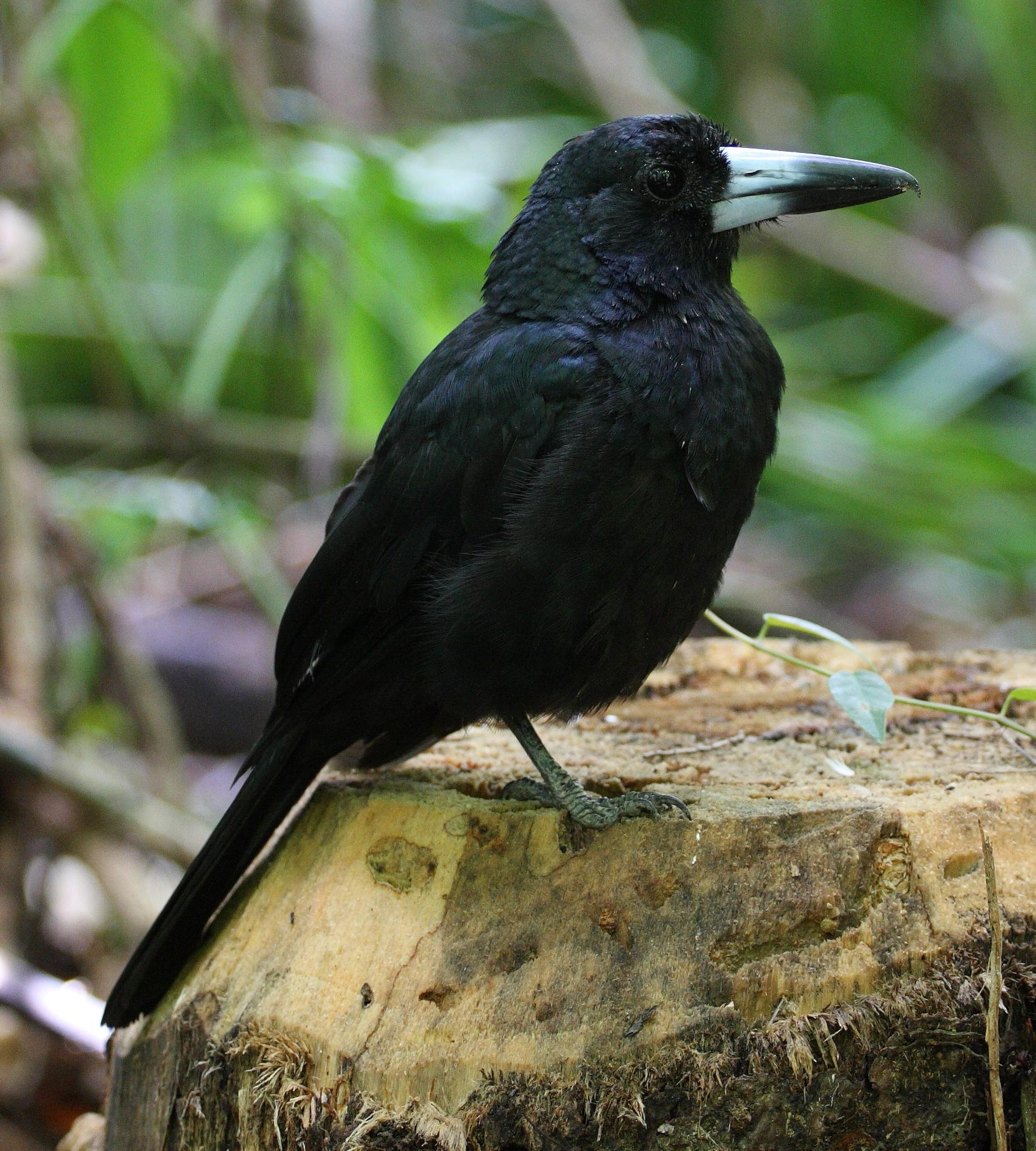 Black butcherbird (Cracticus quoyi)